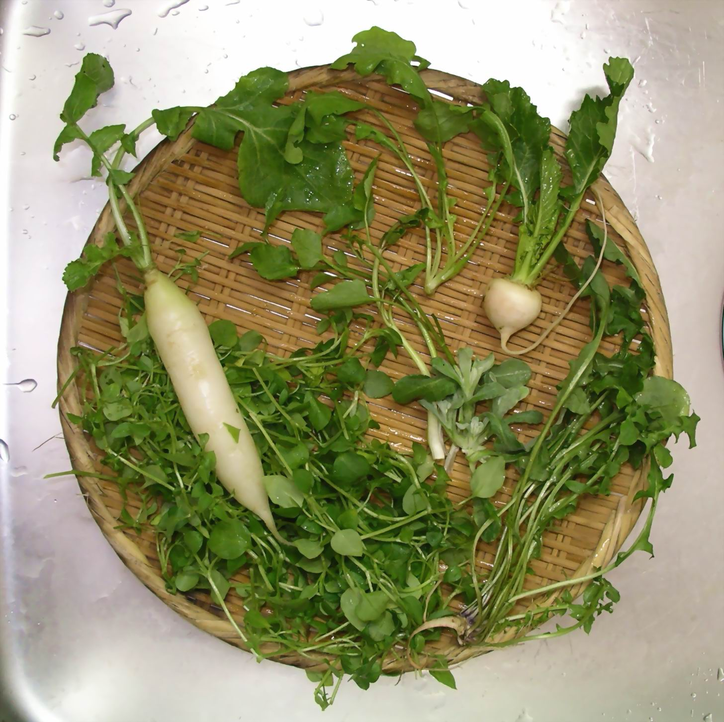 water dropwort (seri, Oenanthe javanica), shepherd's purse (nazuna), cudweed (gogyo, Gnaphalium affine), chickweed (hakobera, Stellaria media), nipplewort (hotokenoza, Lapsana apogonoides), turnip (suzuna), and daikon (suzushiro). Collected for the Festival of Seven Herbs (七草の節句, nanakusa no sekku). Rice congee with the seven herbs of spring on the nanakusa-no-sekkuja:七草粥